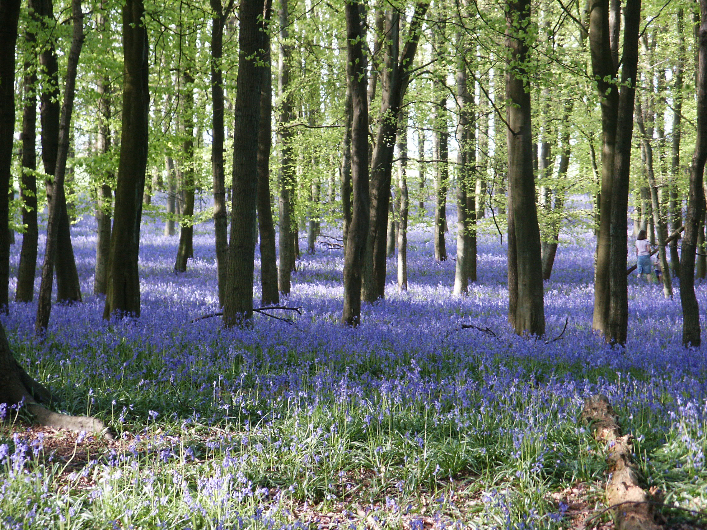 Bluebells (Hyacinthoides non-scripta) are small flowers which carpet the ground in many woodland areas in Britain in the springtime. The photo was taken in the late afternoon in May. The light from the sun at a low angle in the sky gives a pleasing effect. The photo was taken in a patch of woodland called Dockey Wood between Hurst Farm and Ivinghoe Common (see link below to map) located about 1 mile from Ringshall on the north side of the road to Ivinghoe Beacon. It is just in Buckinghamshire, United Kingdom.